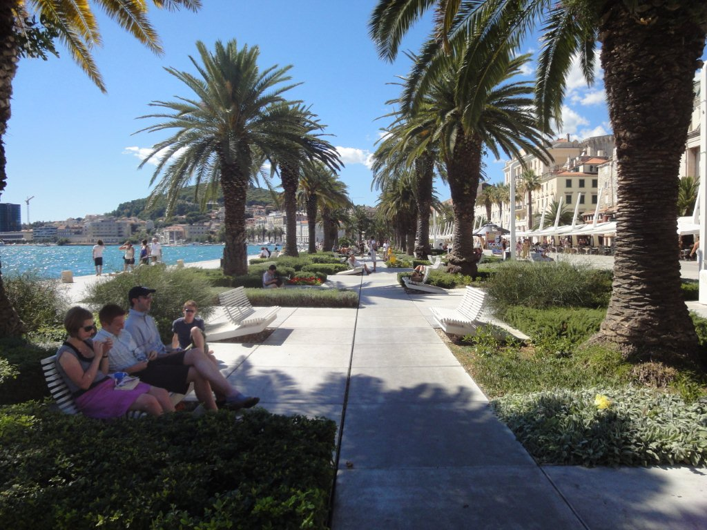 The waterfront is the focal point where the city meets the sea. 250 meters long and 55 meters wide, it is also the main public square, the space for all kinds of social events, promenade by day, parade by night, the site of sport events, religious processions, festivals and celebrations. The project rearticulates the space for all the mentioned events and harmonizes them on a new integrated surface. The solution uses not only architectural design, but also materials, to respond to all the challenges of utilization set before the Riva.